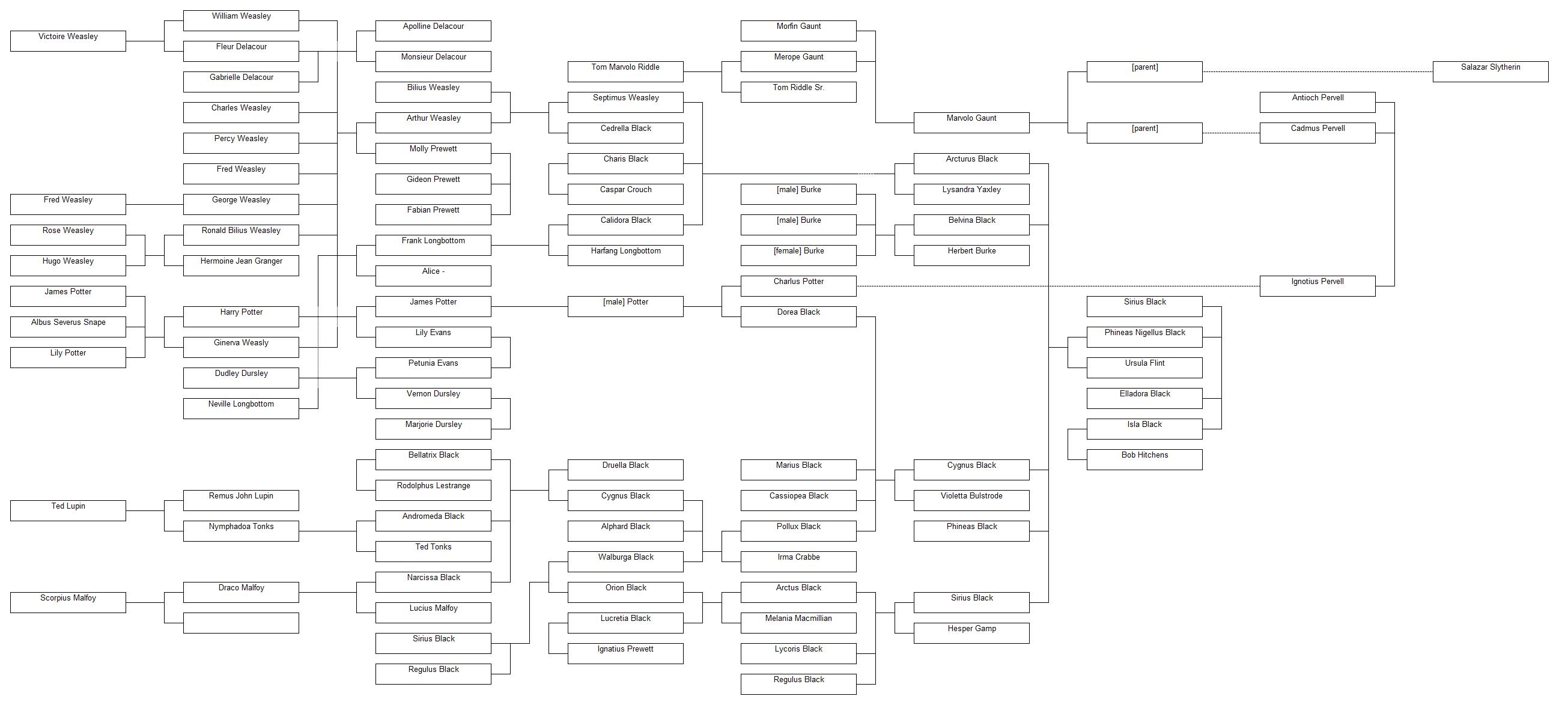 Harry Potter family tree compiled from Wikipedia articles